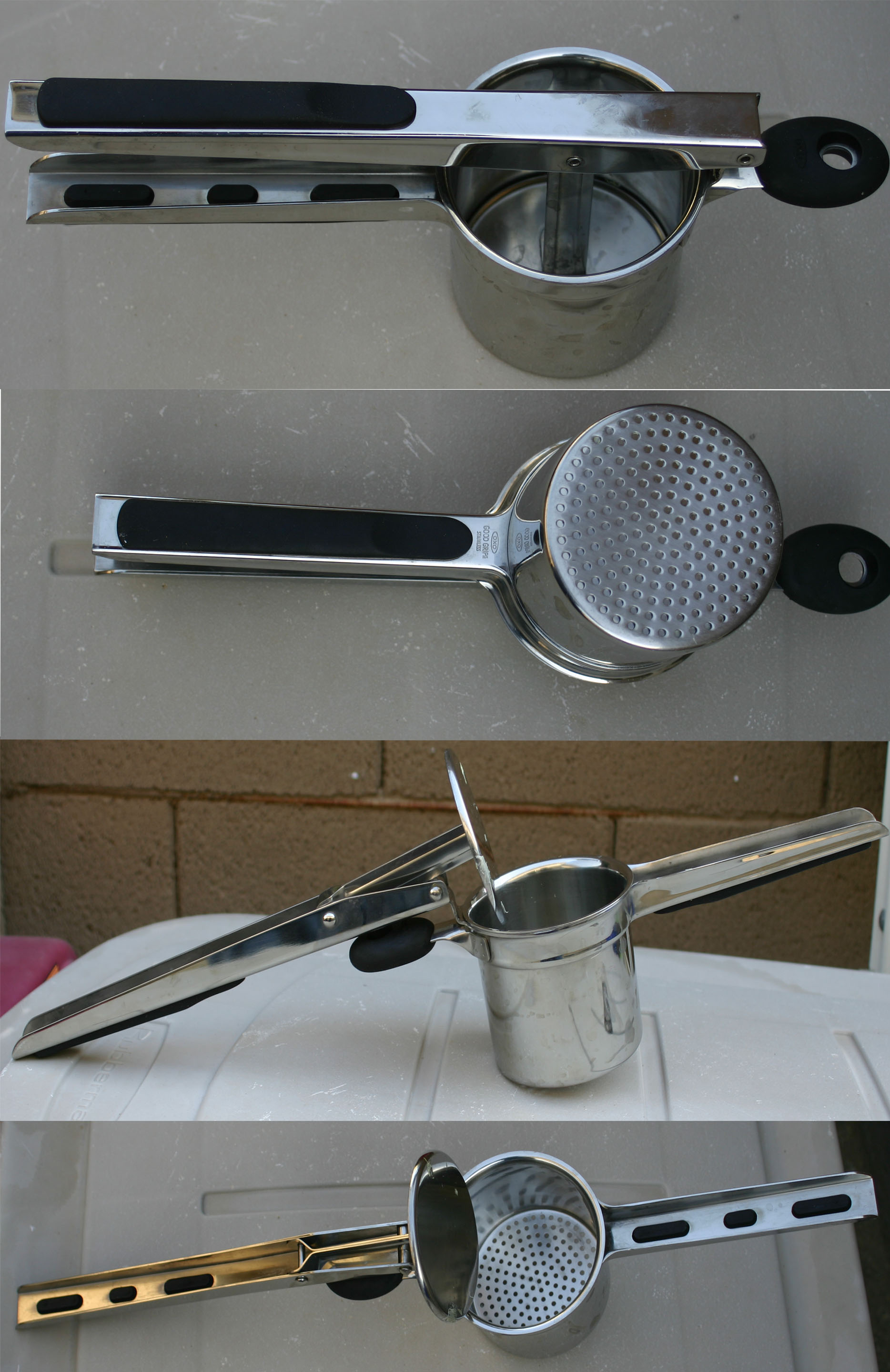 Collage of photos showing a potato ricer from different angles. The example shown is a Model 26981 from OXO International, Ltd. All photos taken, and collage made by Jot Powers, 1/2006.